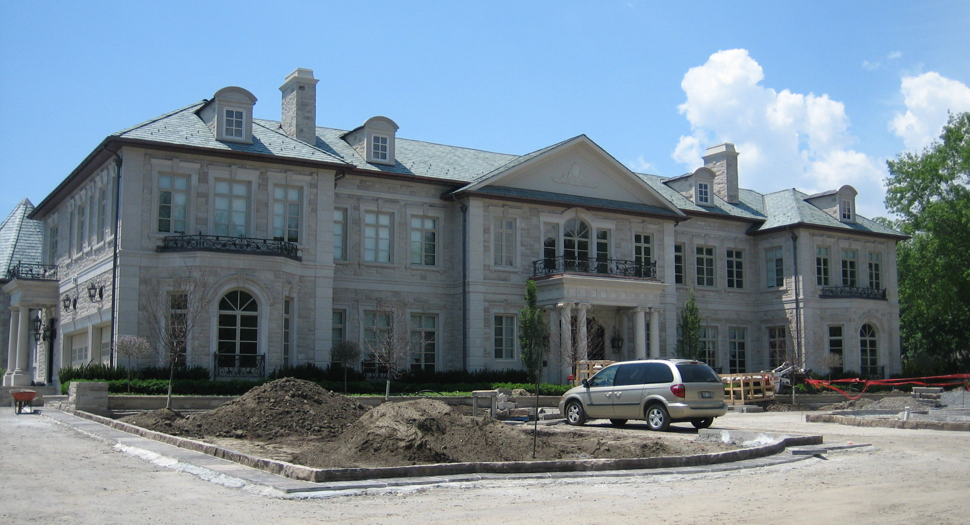 73, The Bridle Path, Borough Bridle Path, Toronto, Ontario, Canada.